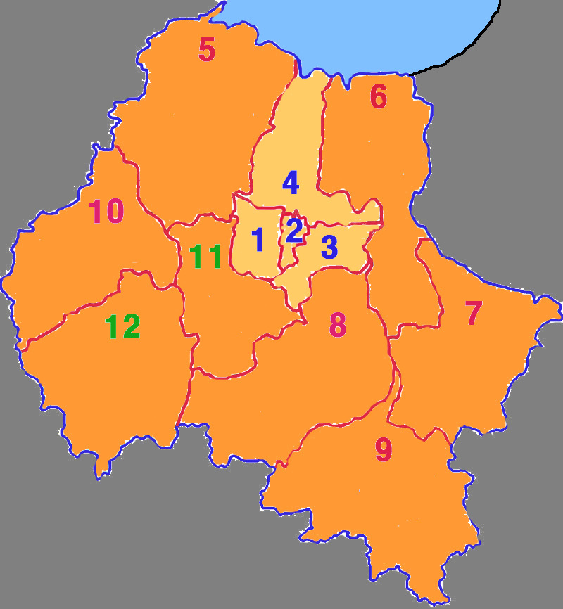 Municipalities of Weifang city in Shandong province, China